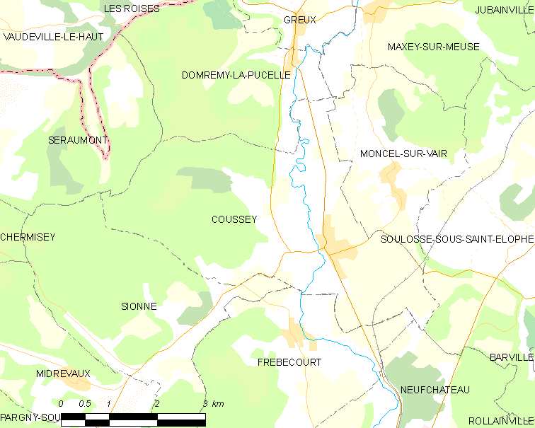 Map of French municipality Coussey